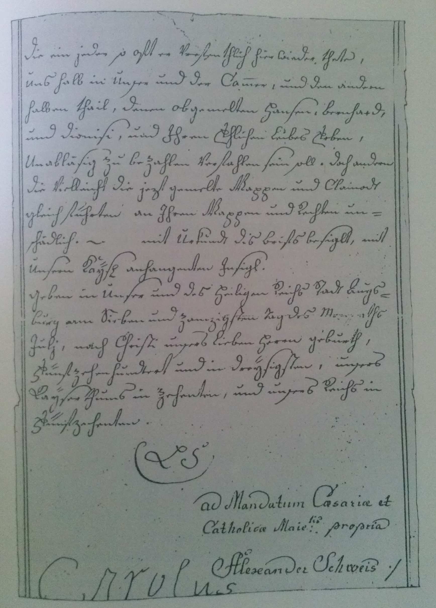 Letzte Seite der Urkunde zur Anerkennung des Ausfergenamtes der Familie Standl durch Kaiser Karl V. im Jahr 1530.